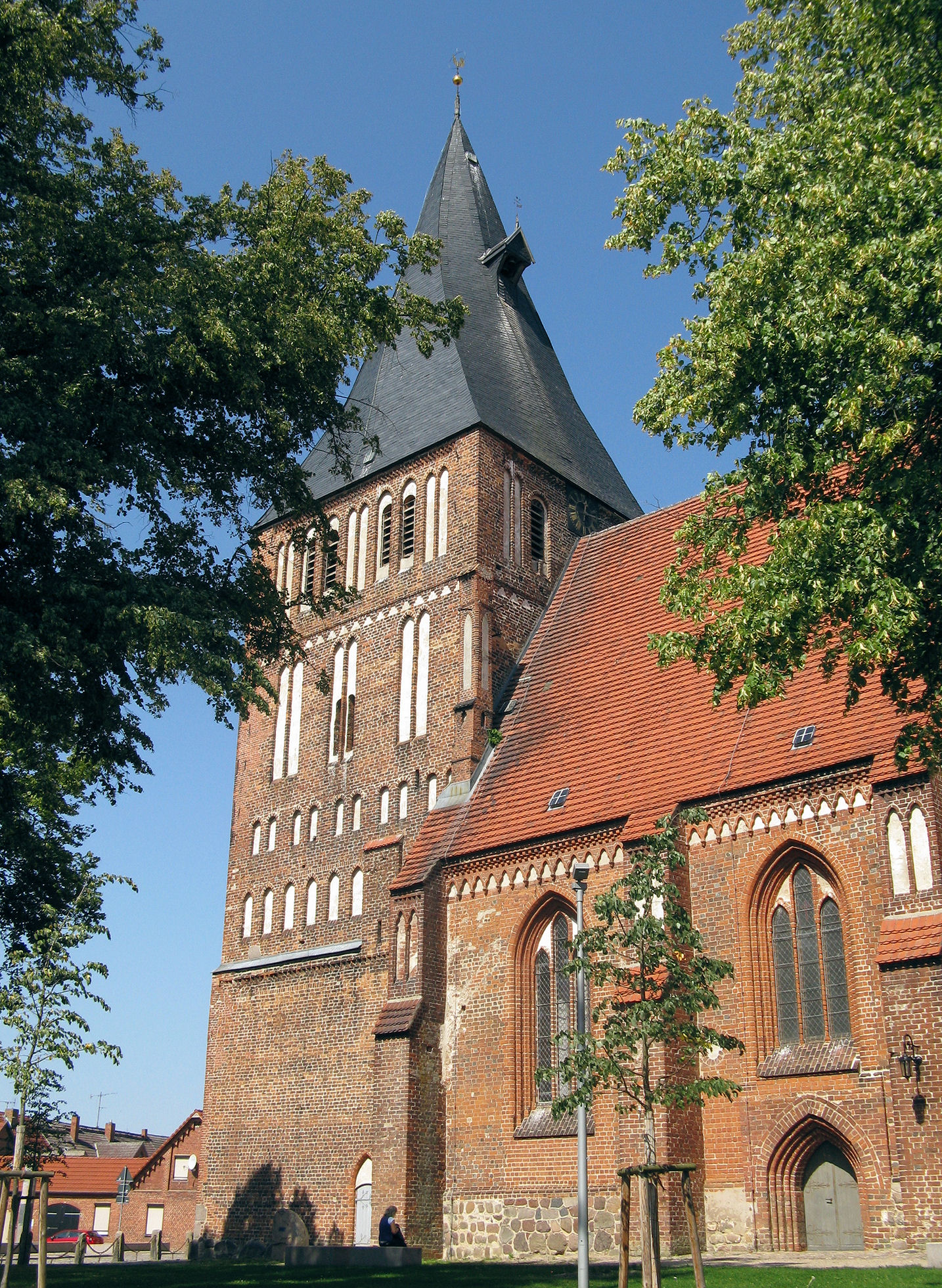 Church in Gnoien, disctrict Güstrow, Mecklenburg-Vorpommern, Germany